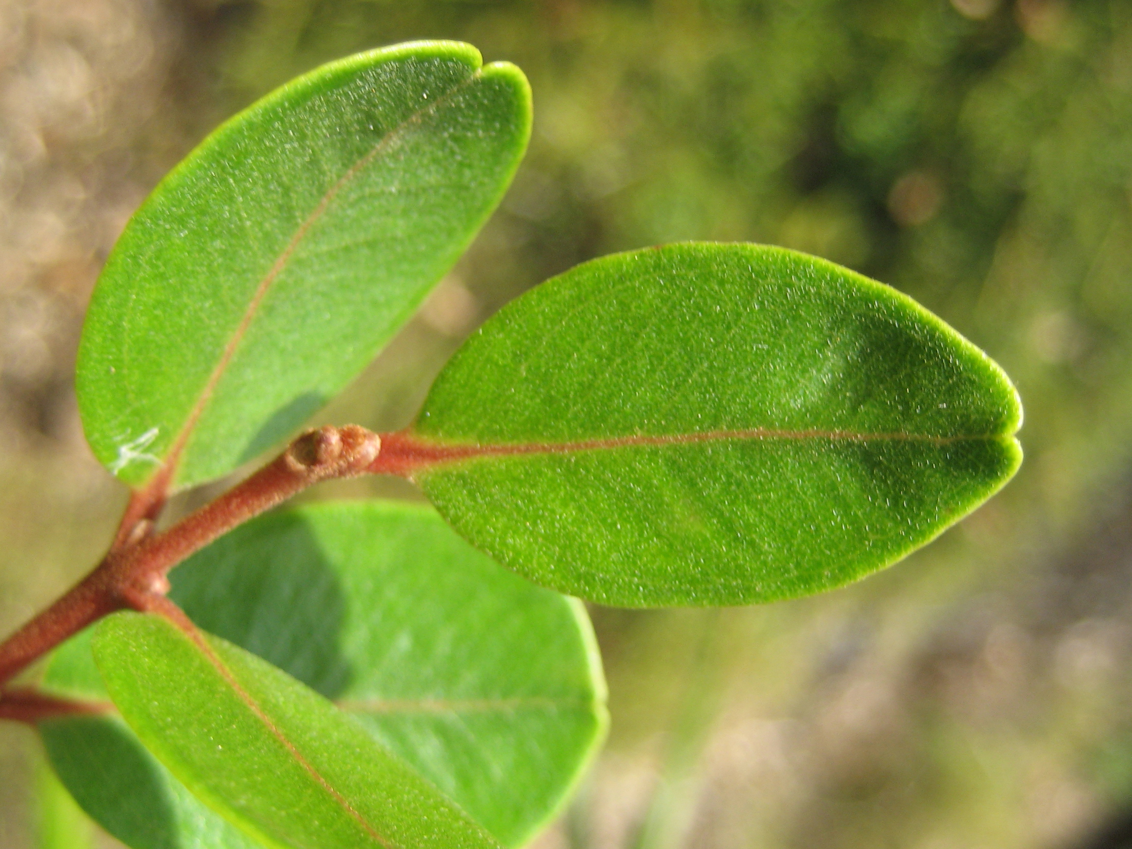 Leaves of Northern rātā (Metrosideros robusta), showing the distinct apical notch. From a young labelled tree growing at the Auckland Botanic Gardens, Manurewa, Auckland, New Zealand.